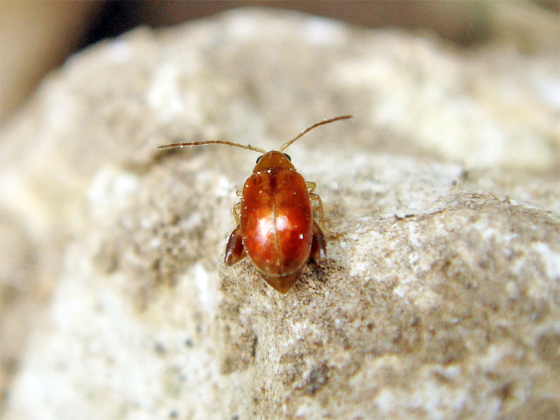 Longitarsus rutilus in Ansião, Leiria, Portugal